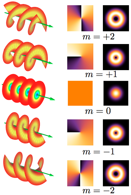 helical beam with different topological charge. columns show the helical structures, phase-front and intensity of the beams.